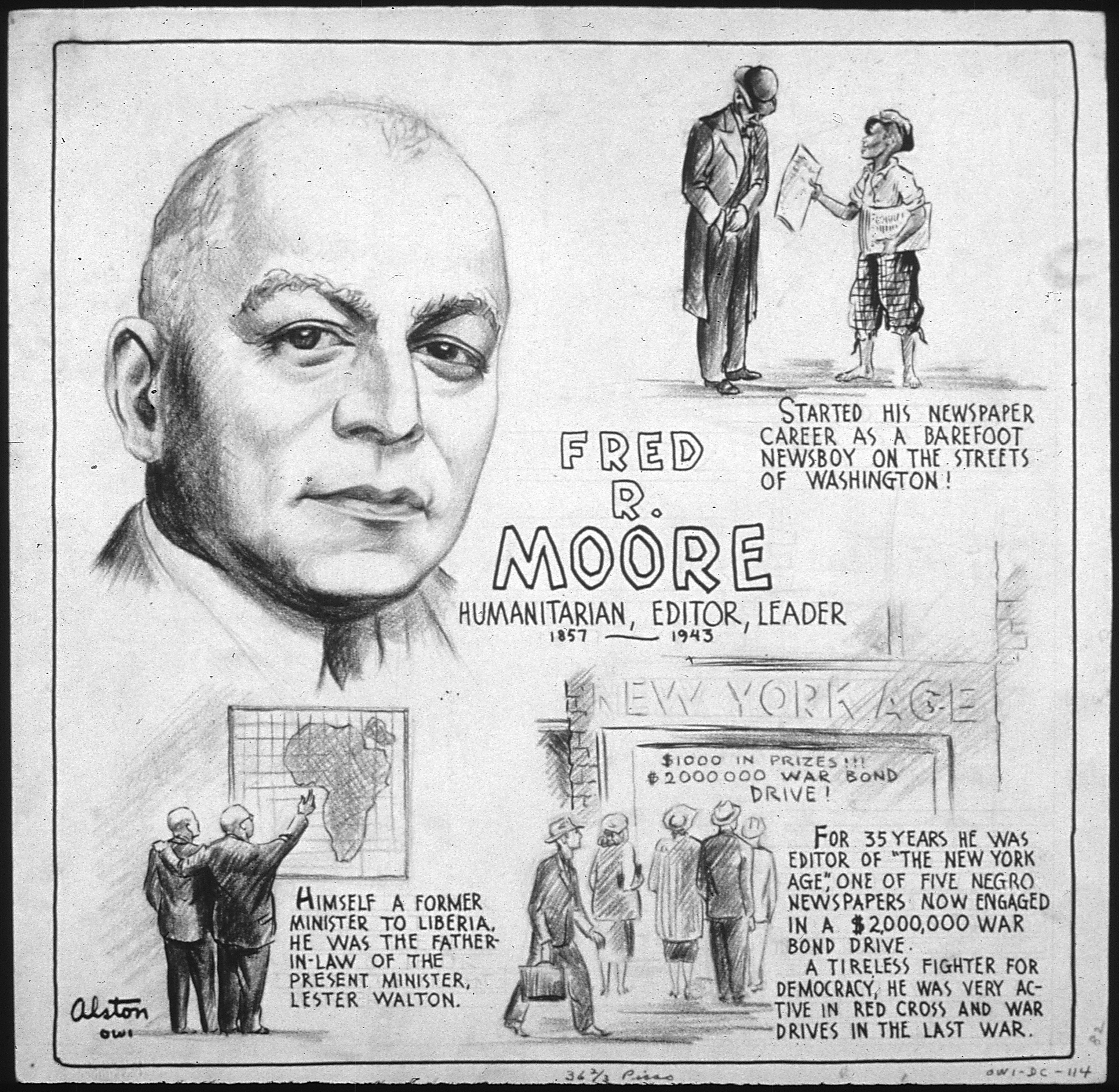 Scope and content: Fred R. Moore - with biographical paragraphs.